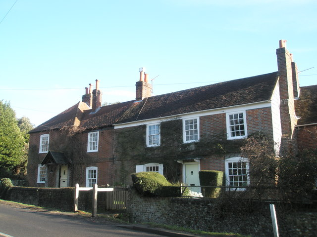 Beautiful cottages at Fishbourne. Taken from point just past motorway bridge.